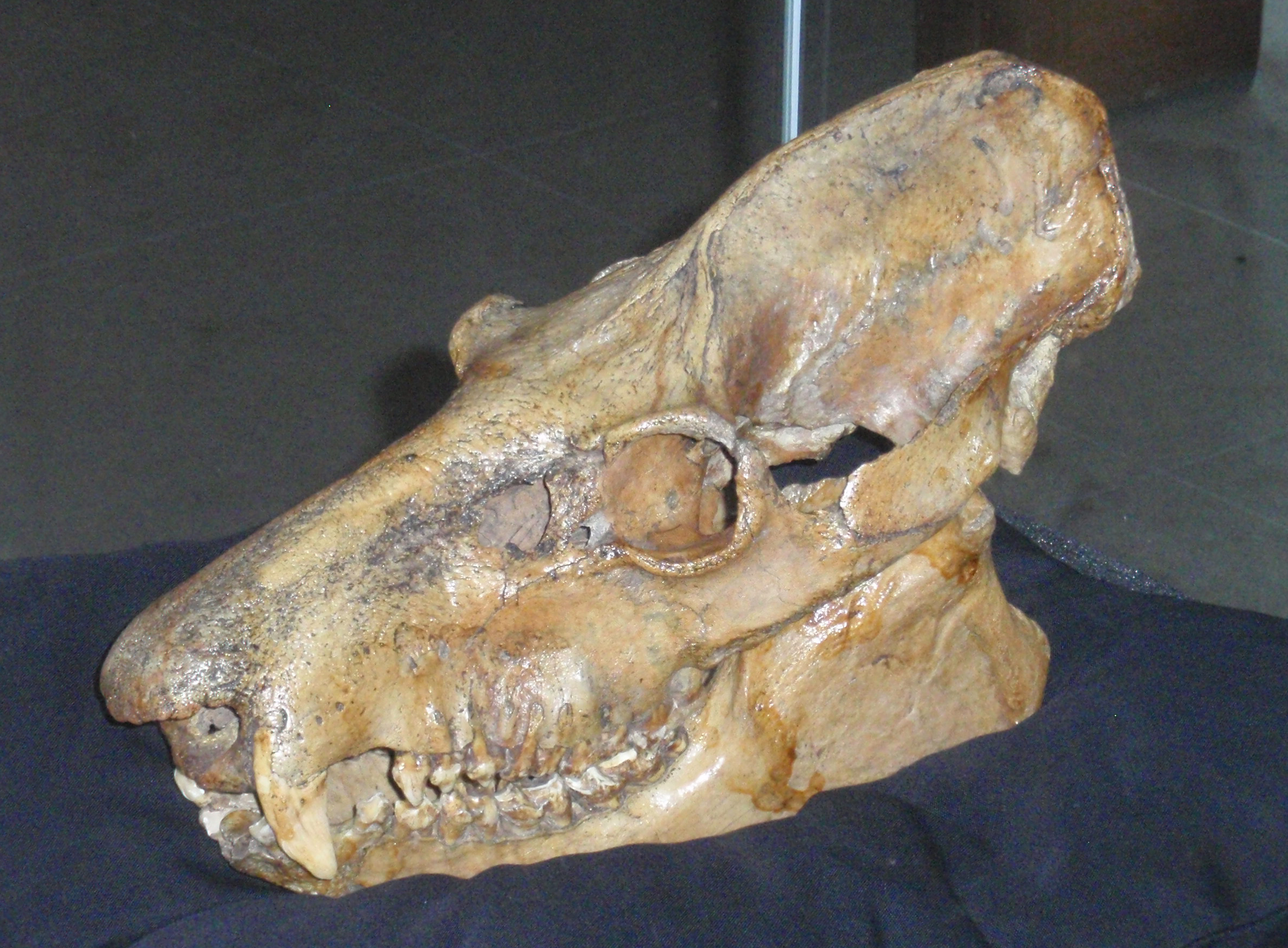 M13898 (cranium) and M13899 (mandible) of Megaladapis edwardsi[1], an extinct primate from Madagascar. Skull exhibited on Natural History Museum, London.